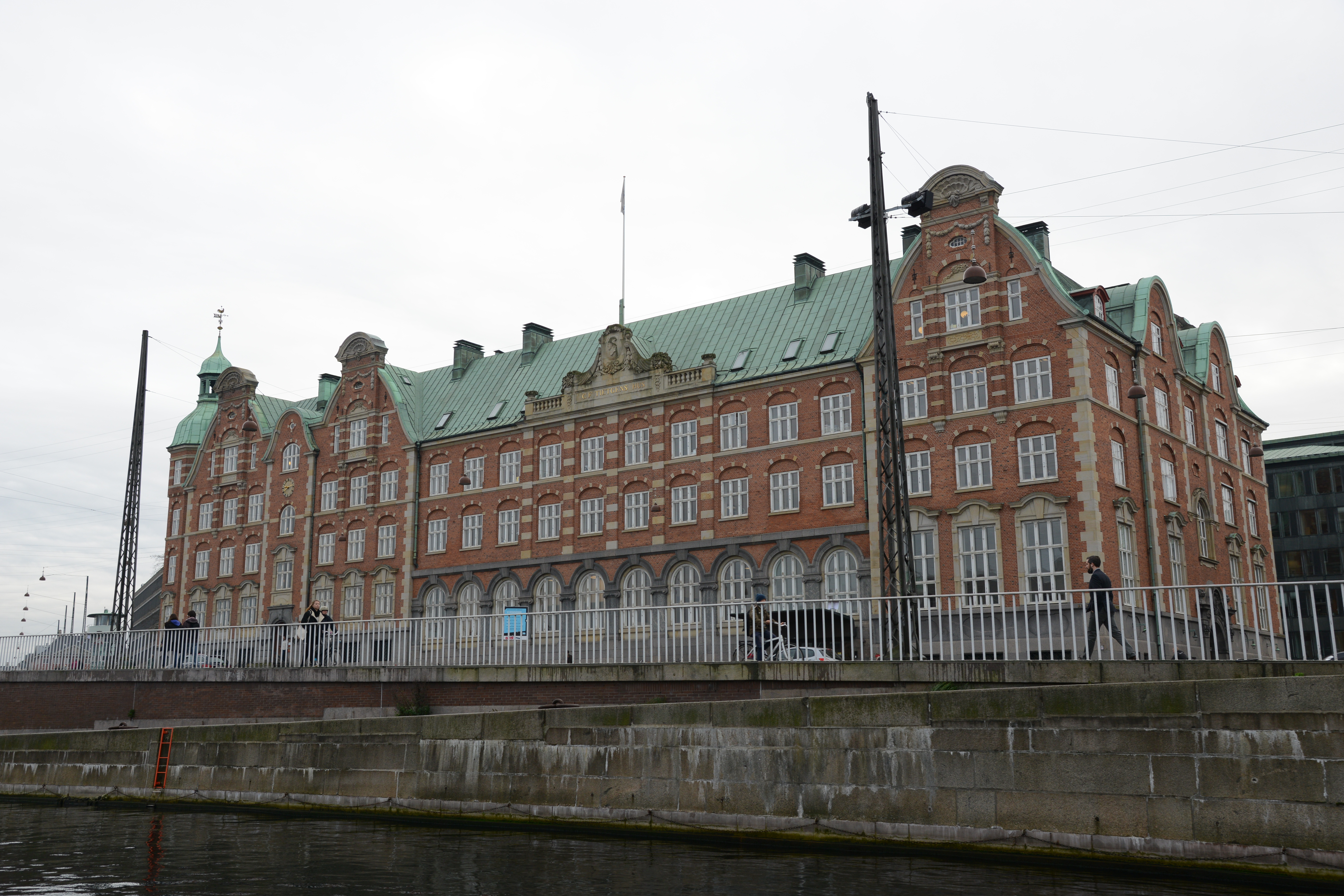 Ministry of Higher Education and Science building